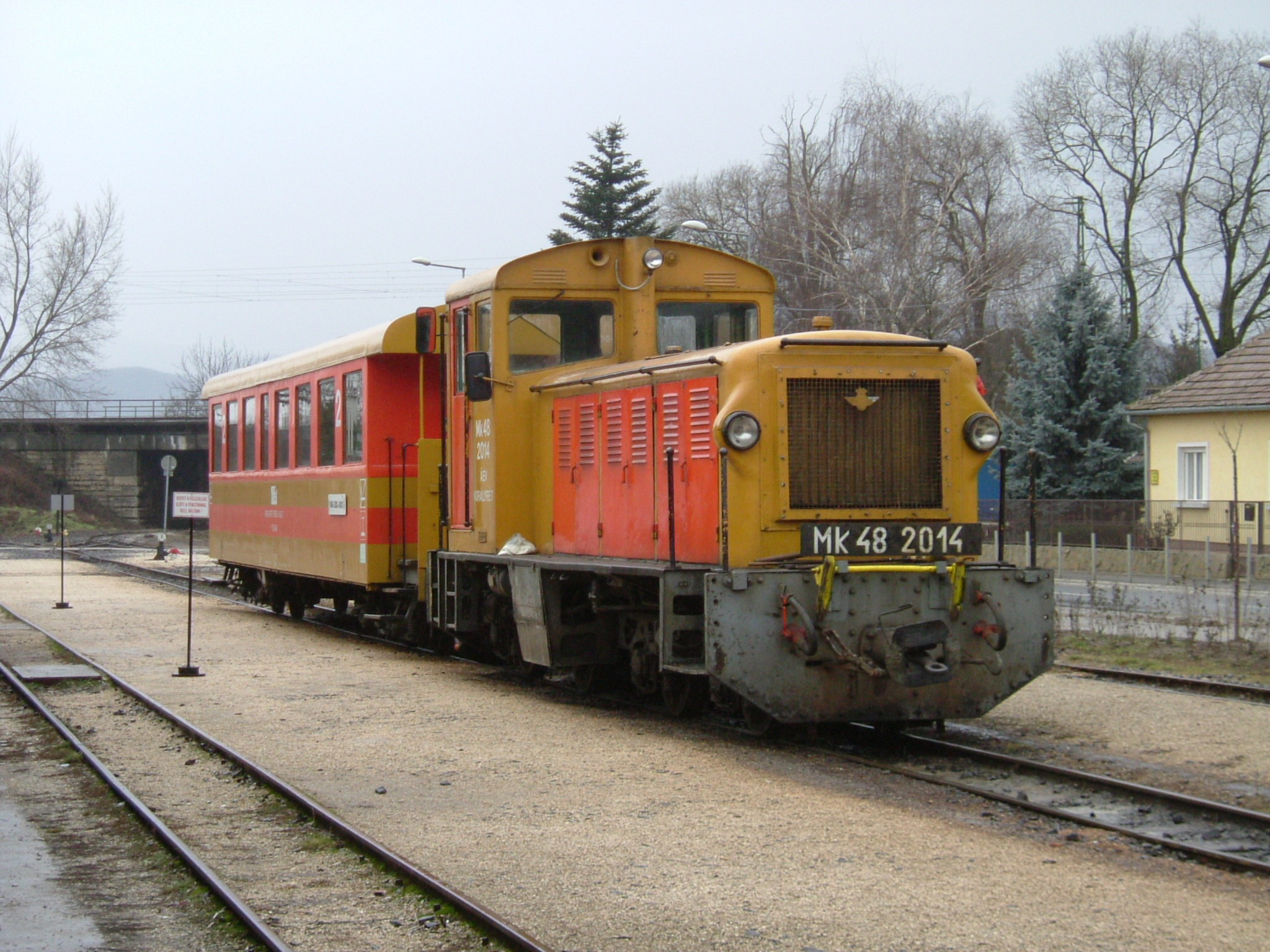 Kismaros, nostalgy narrow-gauge train with a Diesel-locomotive